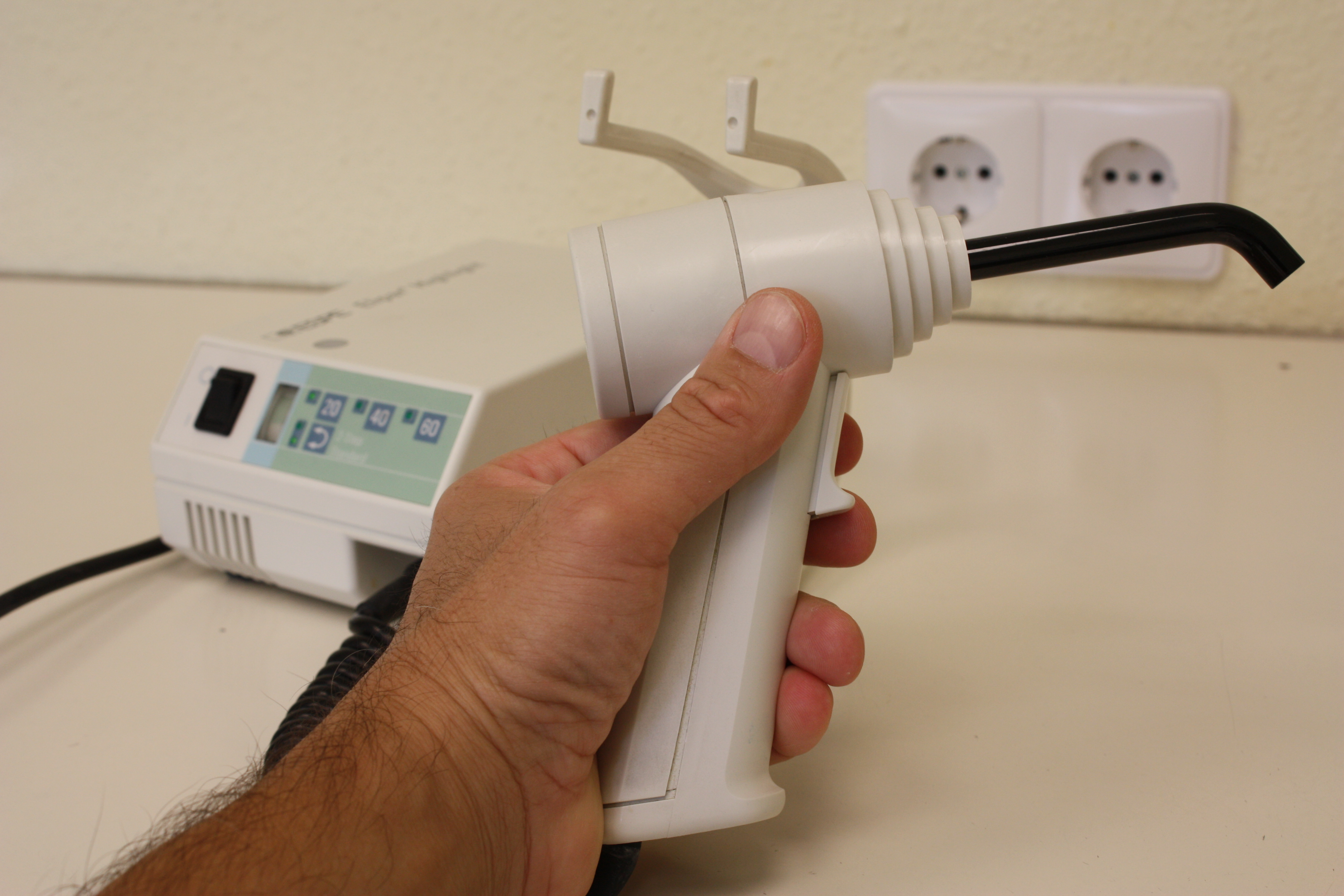 Polymerisationslampe für Komposite (Zahnmedizin) 2009